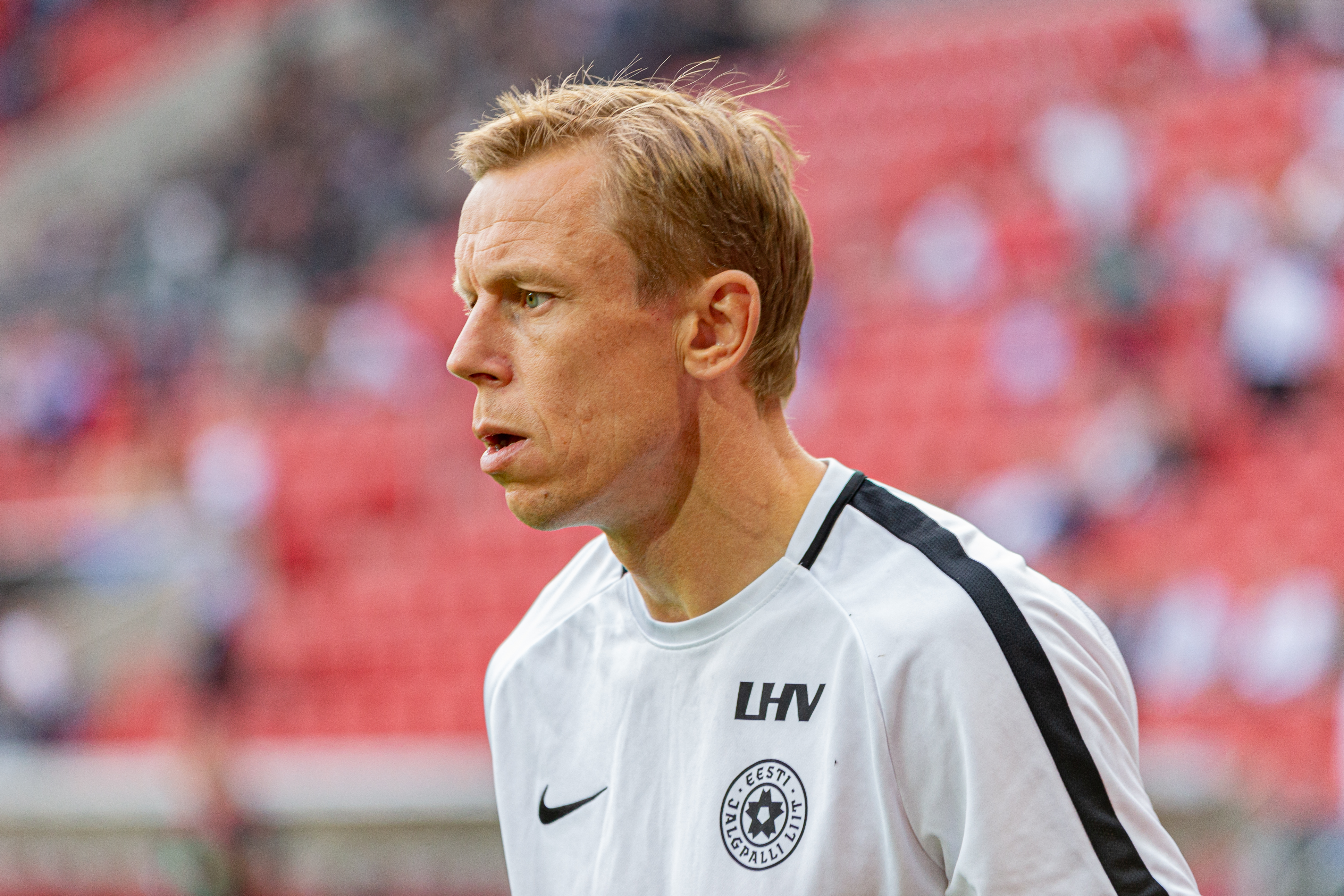 UEFA Euro 2020 qualifier Germany-Estonia